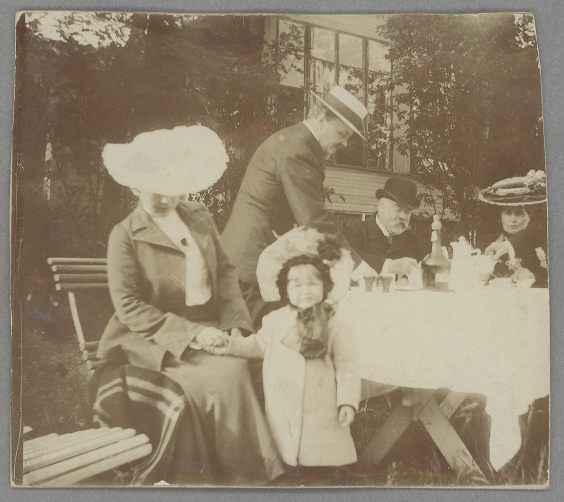 August Strindberg serves coffe at Philpska villan in Furusund. This print is cropped. The Strindberg Museum has an uncroppped version. Date: 1904. Photographer: Unknown Part Of: National Library of Sweden, Collection of Manuscripts, Strindbergsrummet